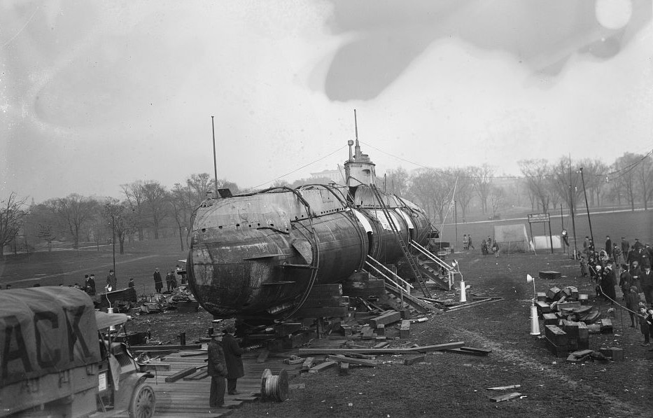 The German Imperial Navy submarine UC 5 on display at New York City (USA). UC 5 was a German Type UC I U-boat and commissioned on 19 June 1915 at Hamburg. She served in the First World War under the command of Herbert Pustkuchen (June 1915 - December 1915) and Ulrich Mohrbutter (December 1915 - April 1916). UC 5 had an impressive career, with 29 ships sunk for a total of 36,288 tons on 29 patrols. She ran aground on Shipwash Shoal while on patrol on 27 April 1916 (51°59′N 1°38′E) and was scuttled, but the charges failed to explode. Her crew were captured by the British destroyer HMS Firedrake and the submarine was displayed at Temple Pier on the Thames river, and later New York for propaganda purposes.